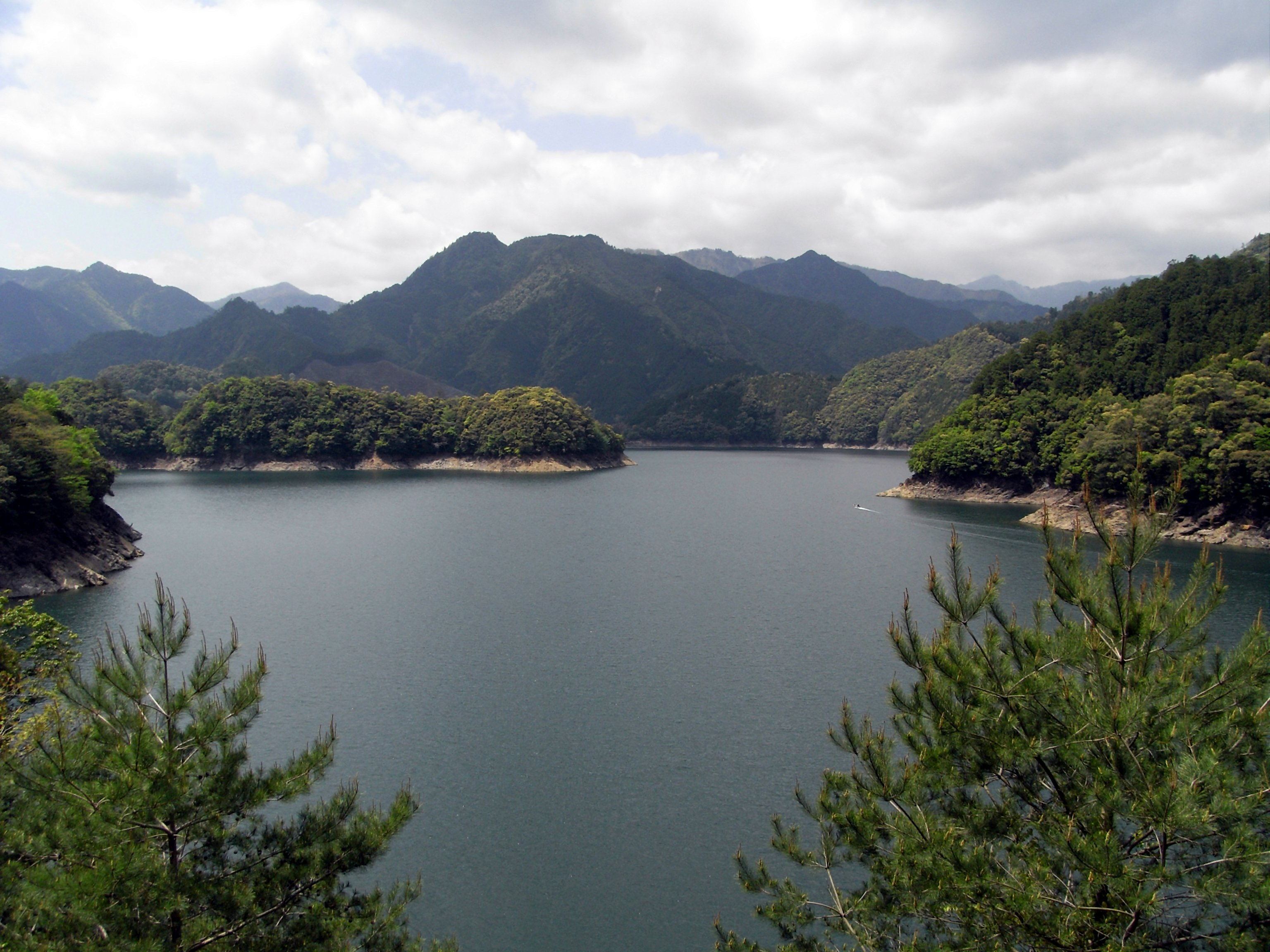 Ikehara Reservoir(Kitayamagawa river/Nara Pref./Japan)